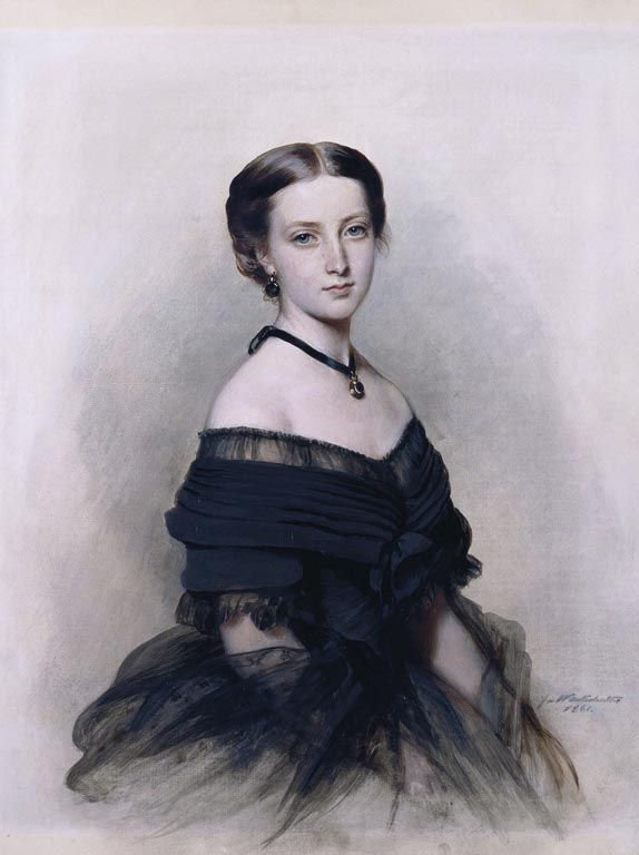 Princess Helena of the United Kingdom (1846-1923)